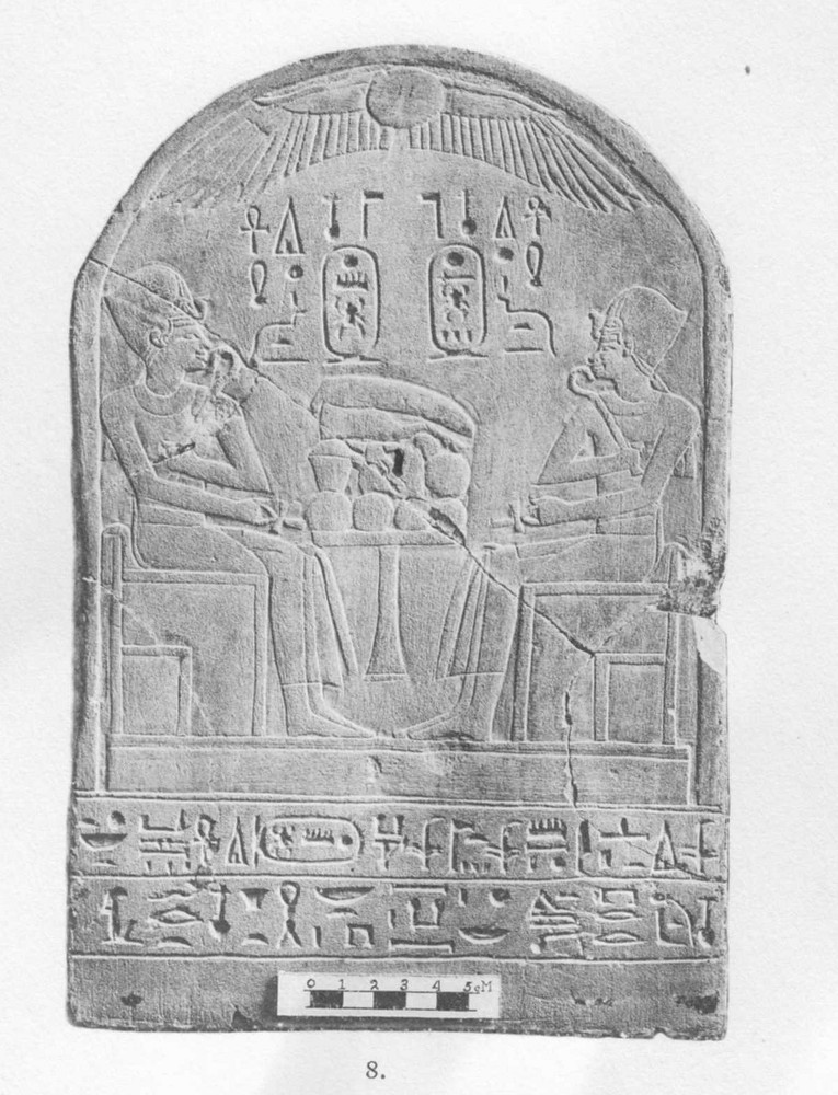 Leiden stala V, 11, of Henetnefret, representing Thutmose III and Amenhotep II facing each other